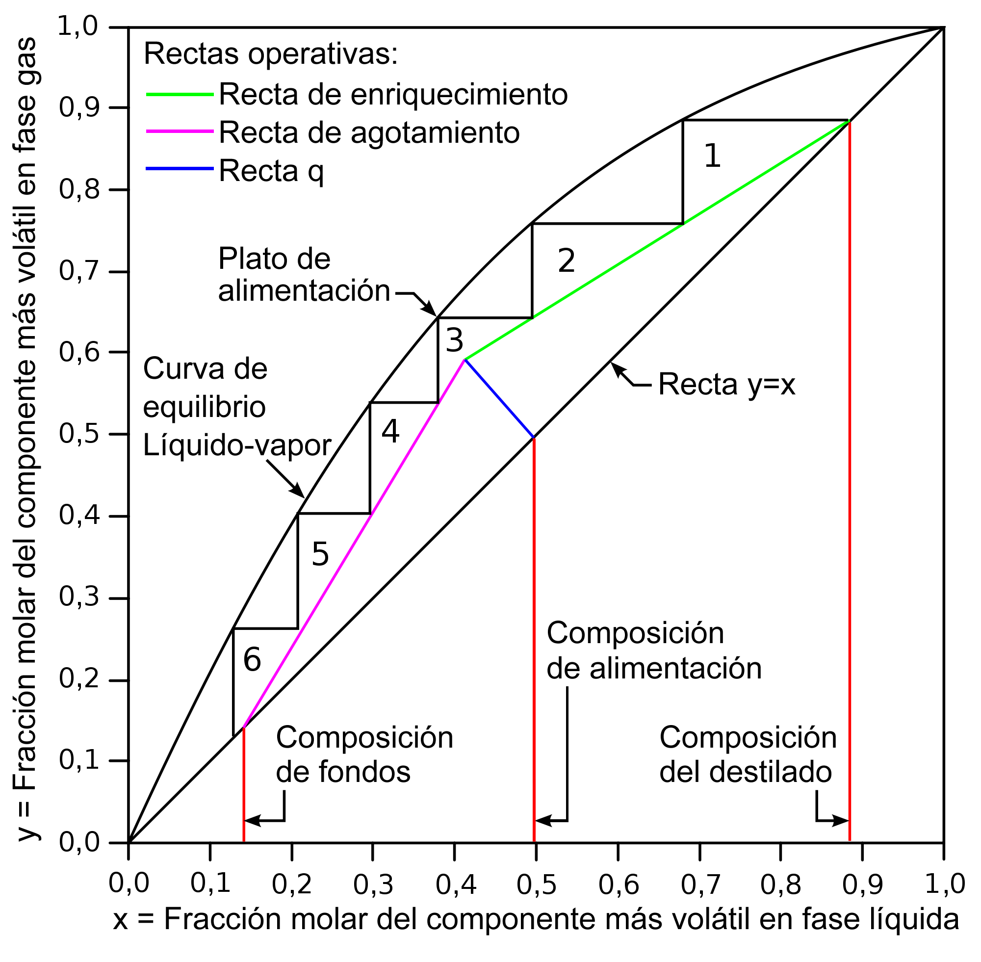 McCabe-Thiele_diagram_spanish